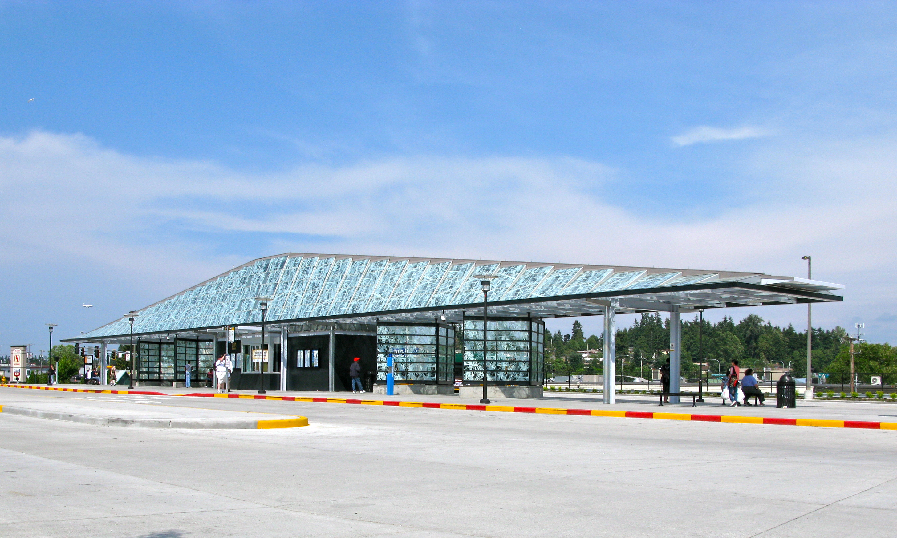 Burien Transit Center main shelter and platform